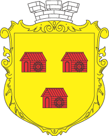 Coat of Arms Bilopillia Sumy Oblast Ukraine